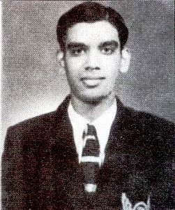 Neville D'souza a legendary Indian footballer who is the first ever Indian and Asian Olympic hat trick scorer.